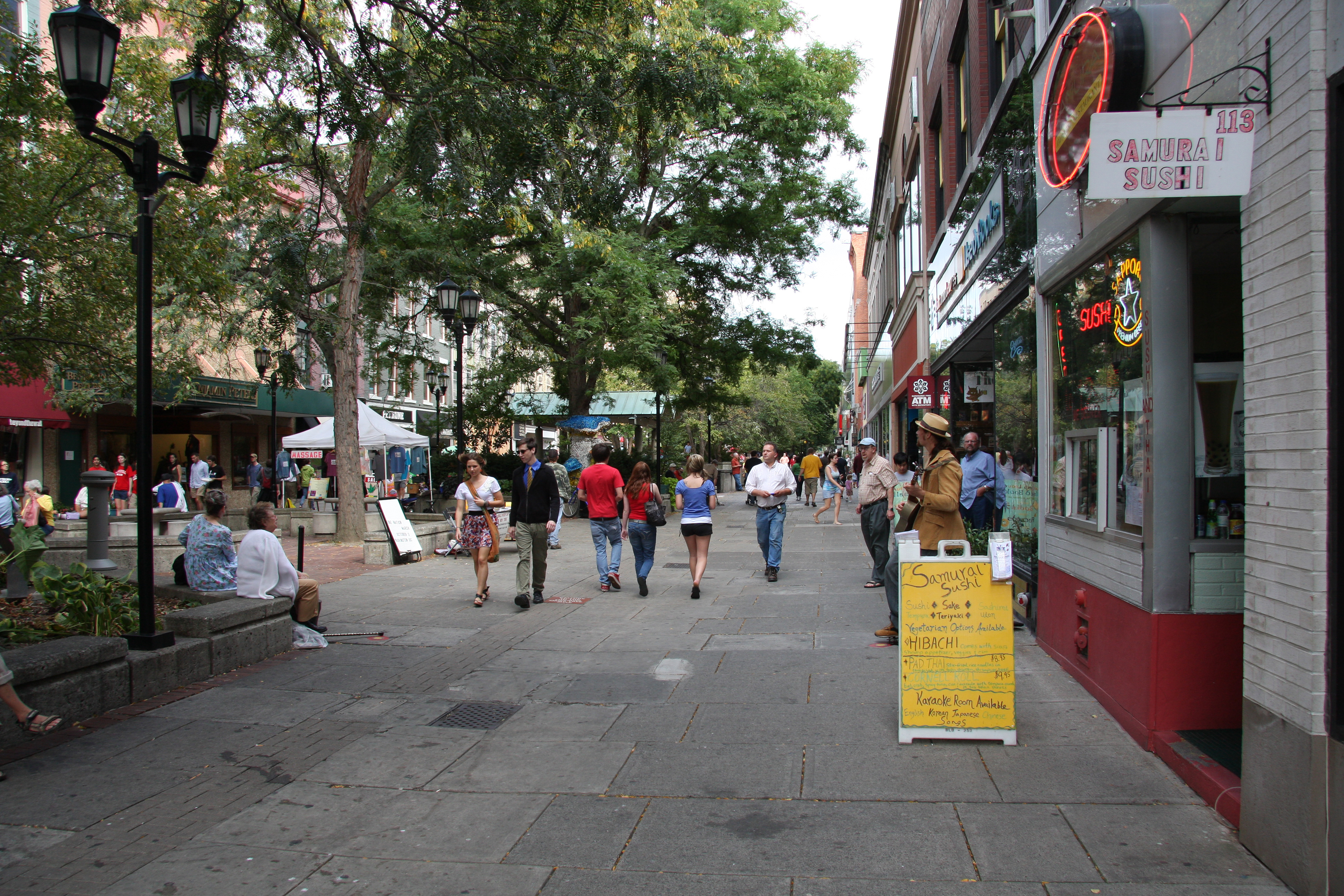 Ithaca Commons